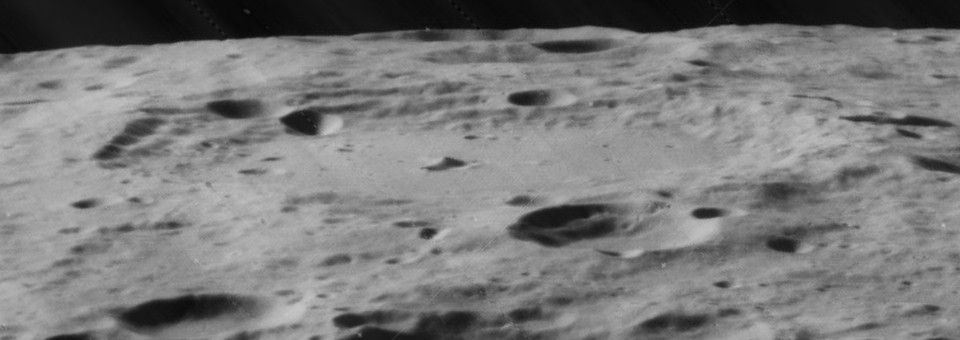 Highly oblique view of Carnot, with the horizon in the background, on the far side of the moon, facing west.